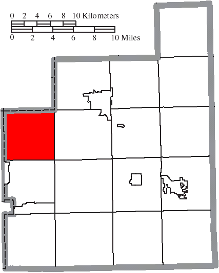 Map of the municipal and township boundaries of Geauga County, Ohio, United States, as of the 2000 census, with the location of Chester Township highlighted. Township borders are shown only in unincorporated areas in order to differentiate incorporated and unincorporated areas more clearly.